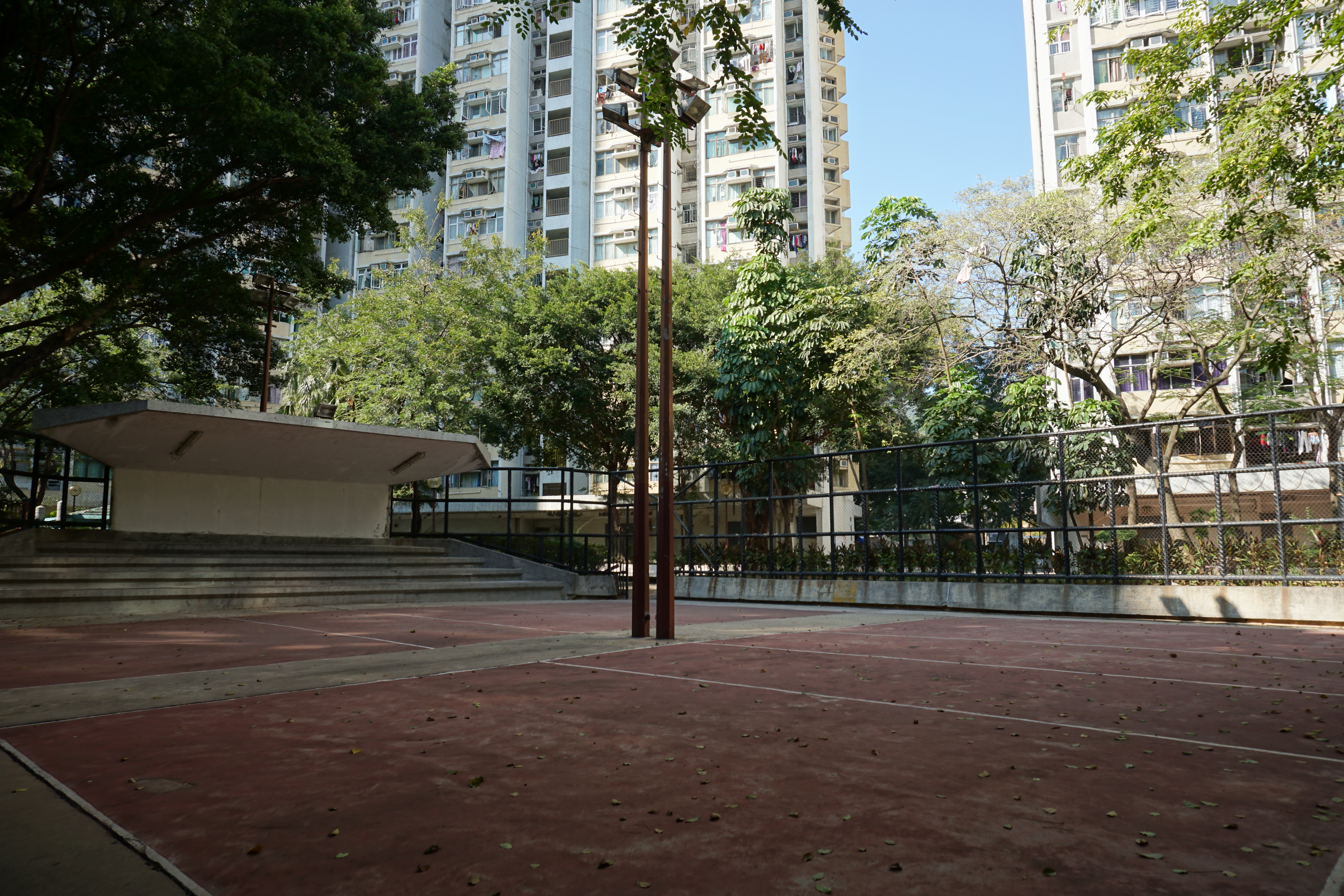 Tin King Estate in Tuen Mun, Hong Kong.